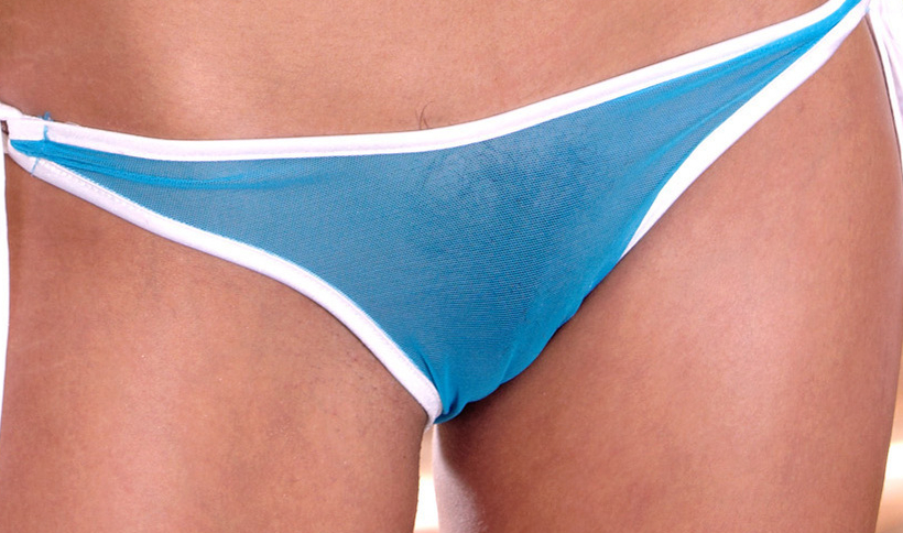 aaaaaa